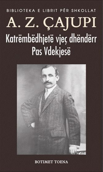 cover of Albanian book A Bridegroom at Fourteen